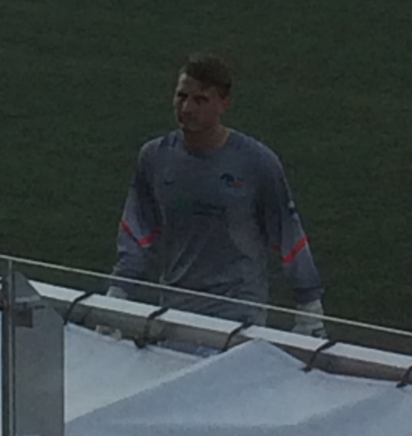 Ryan Hulings of Pittsburgh Riverhounds in US Open Cup on 5/27/15